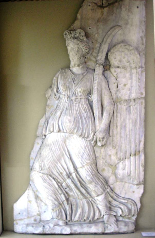 Relief of Nike bearing a date branch. It decorated the entrance of Balat Gate. Marble, Balat. 6th century. Inv. 94 B T, Cat. Mendel 667.